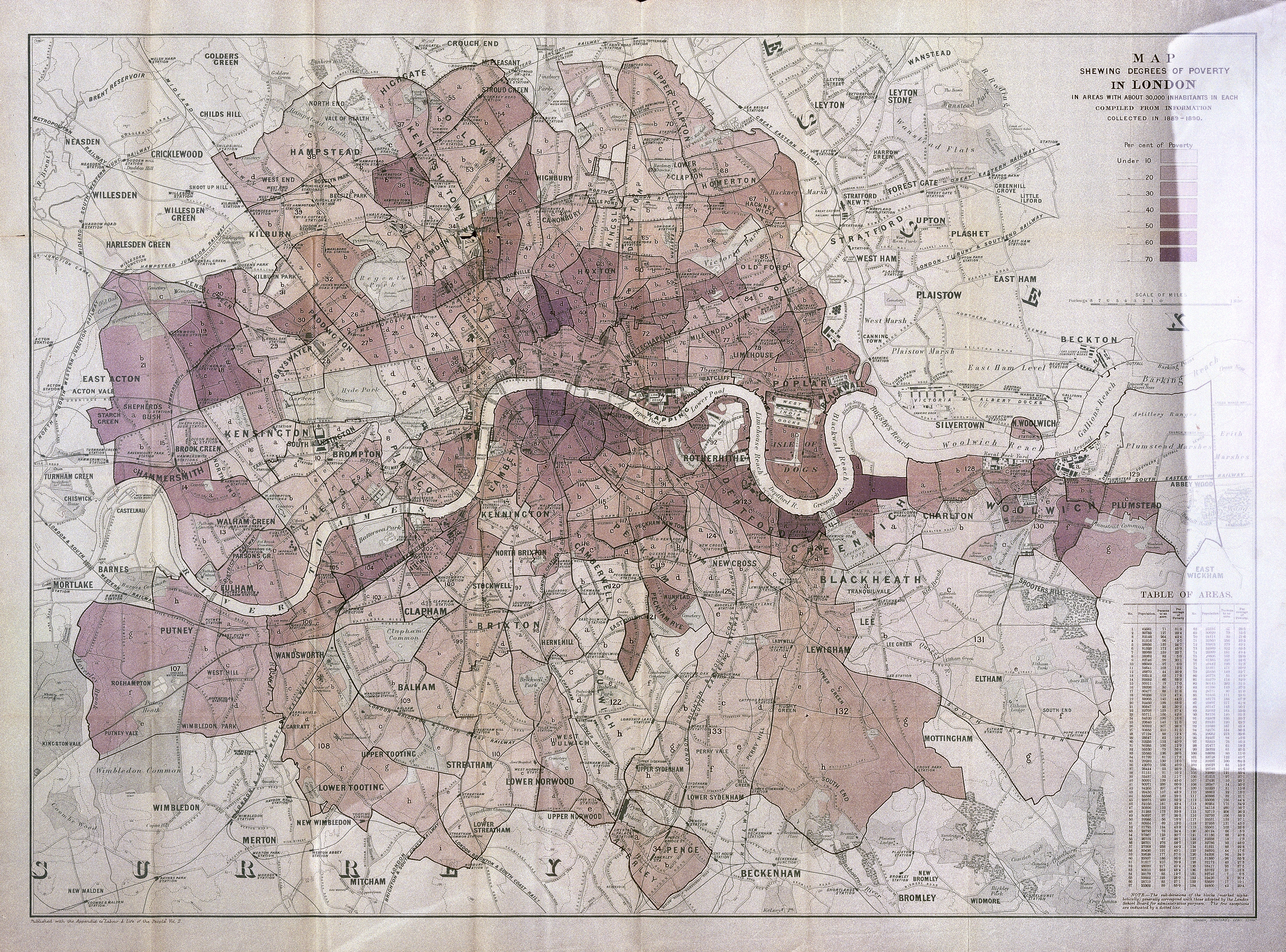 Descriptive map of London poverty, 1889 (showing degrees of poverty in London). General Collections Keywords: LABOUR; Poverty; Maps; London; Charles Booth